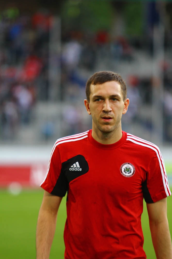 Latvian international football player Oļegs Laizāns